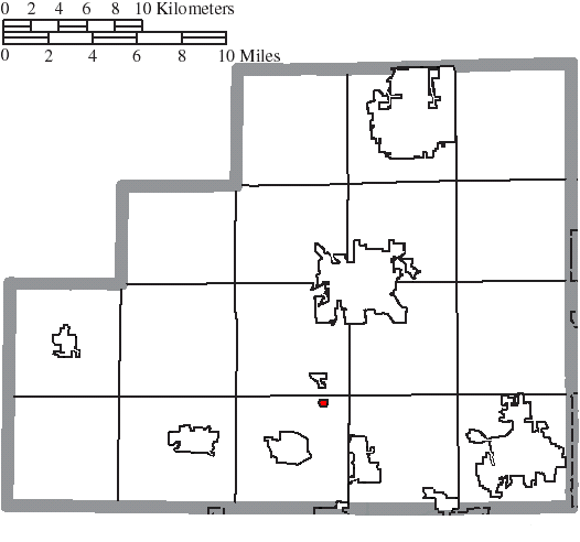 Map of the municipal and township boundaries of Medina County, Ohio, United States, as of the 2000 census, with the location of the village of Gloria Glens Park highlighted. Township borders are shown only in unincorporated areas in order to differentiate incorporated and unincorporated areas more clearly.